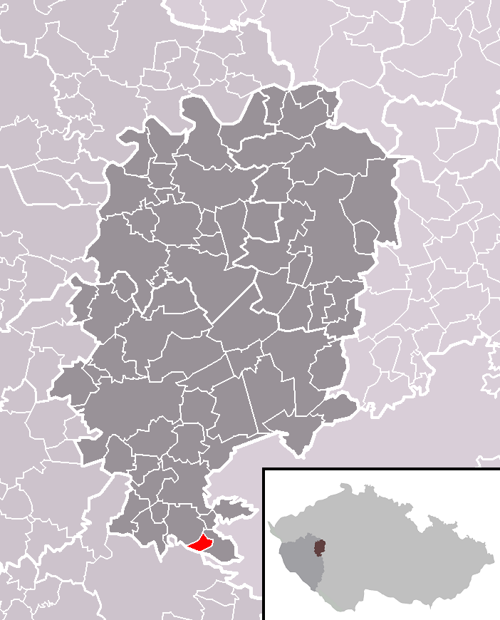 Location of Vísky municipality within Rokycany District and within identical administrative area of Rokycany as a Municipality with Extended Competence.